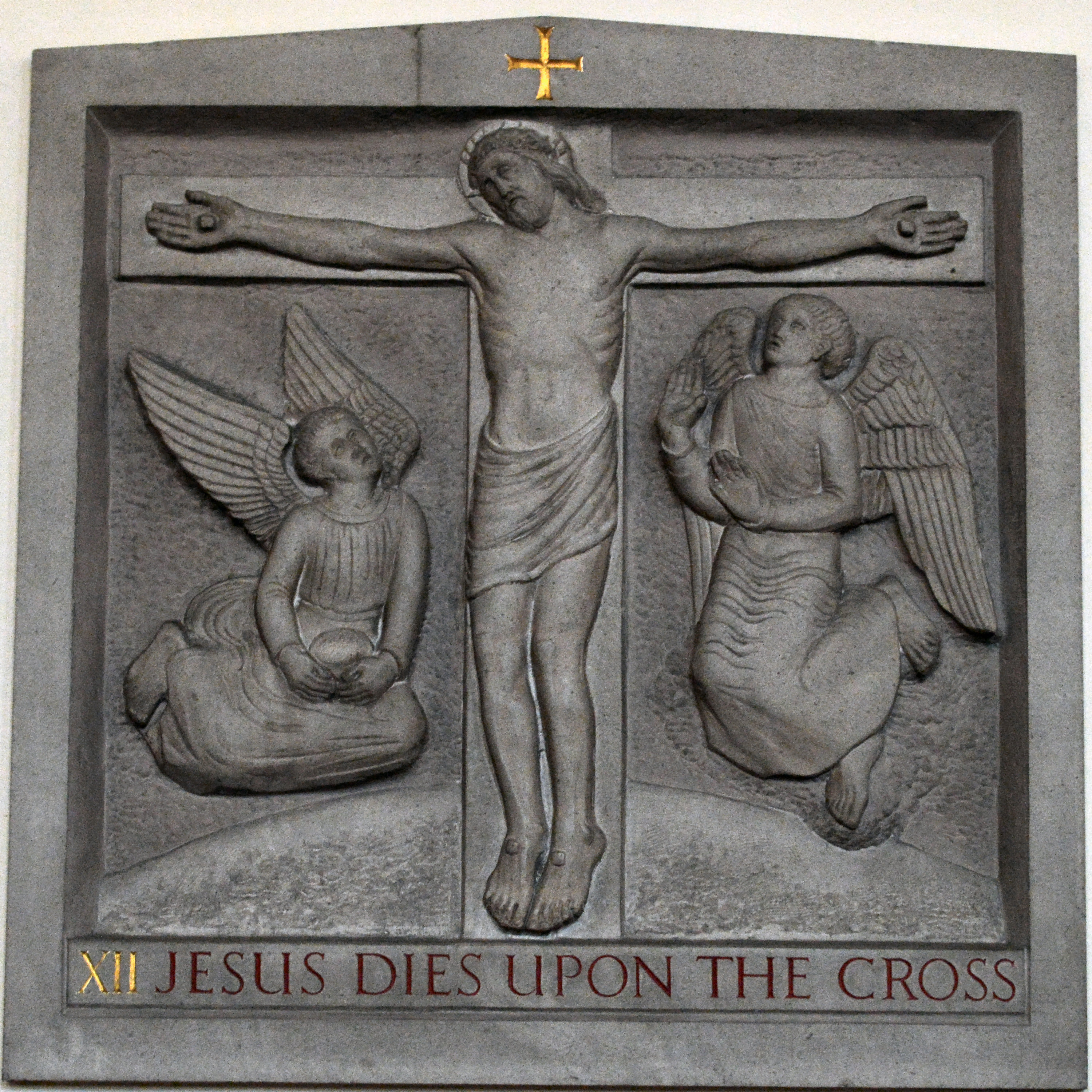 Richmond, St John the Divine, Stations of the Cross XII by Freda Skinner (1911-1993)